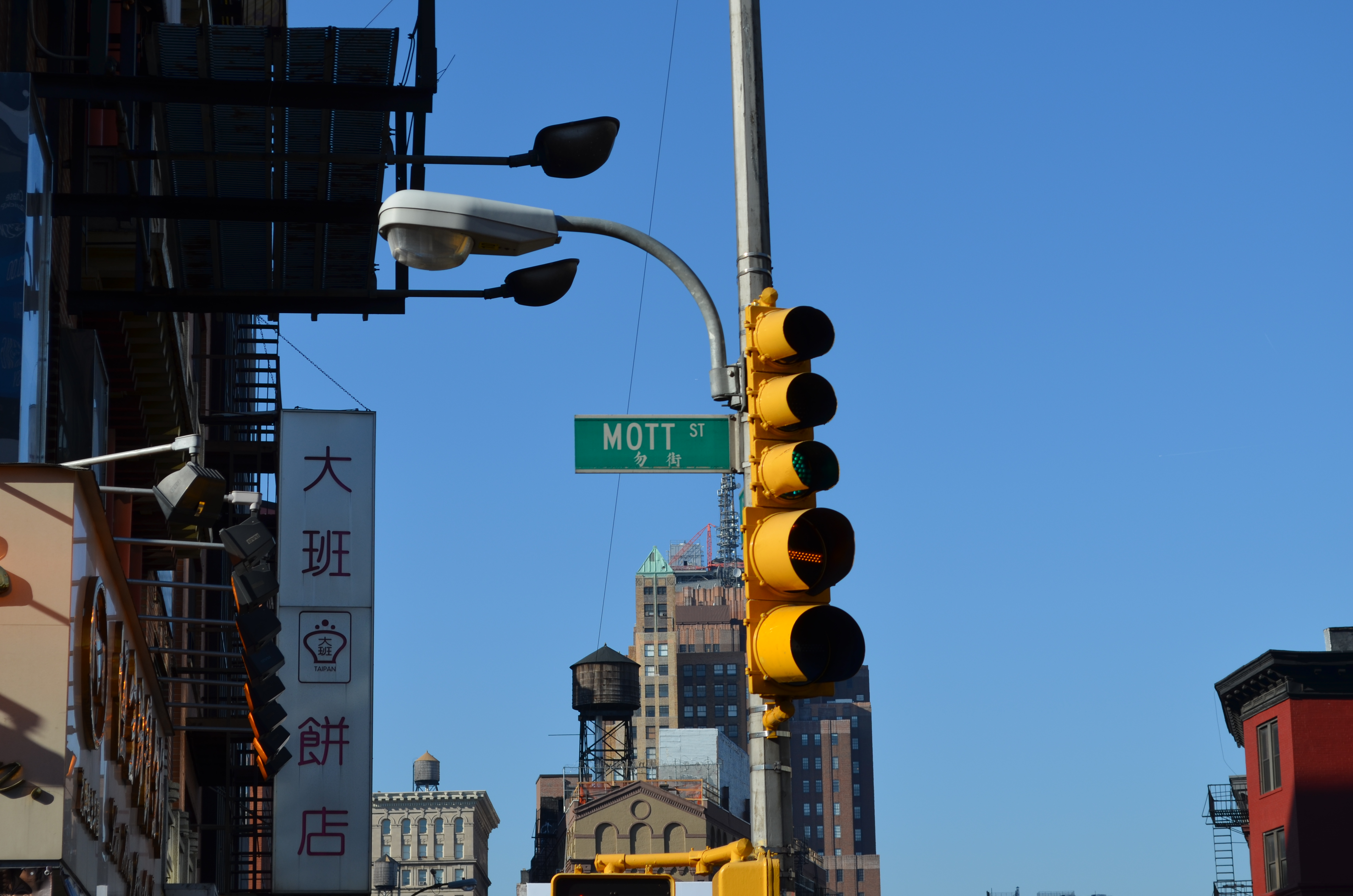 Street sign of Mott St., New York City